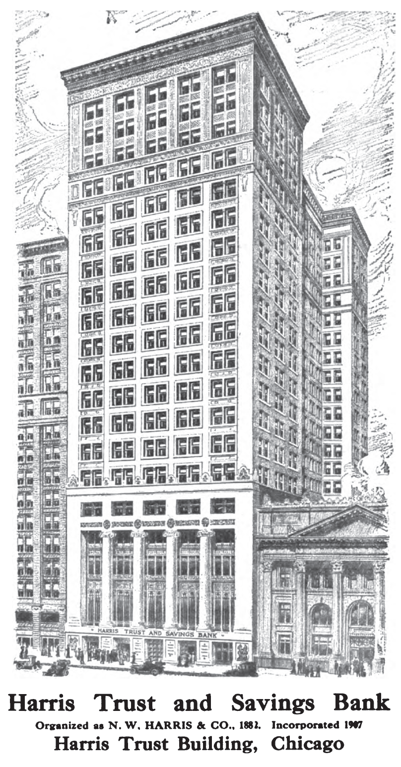 Engraving of the Harris Trust Building in Chicago from 1911